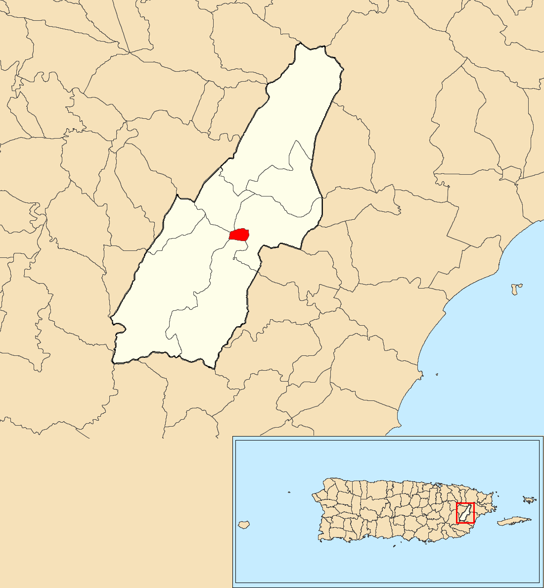 Las Piedras barrio-pueblo, Las Piedras, Puerto Rico locator map